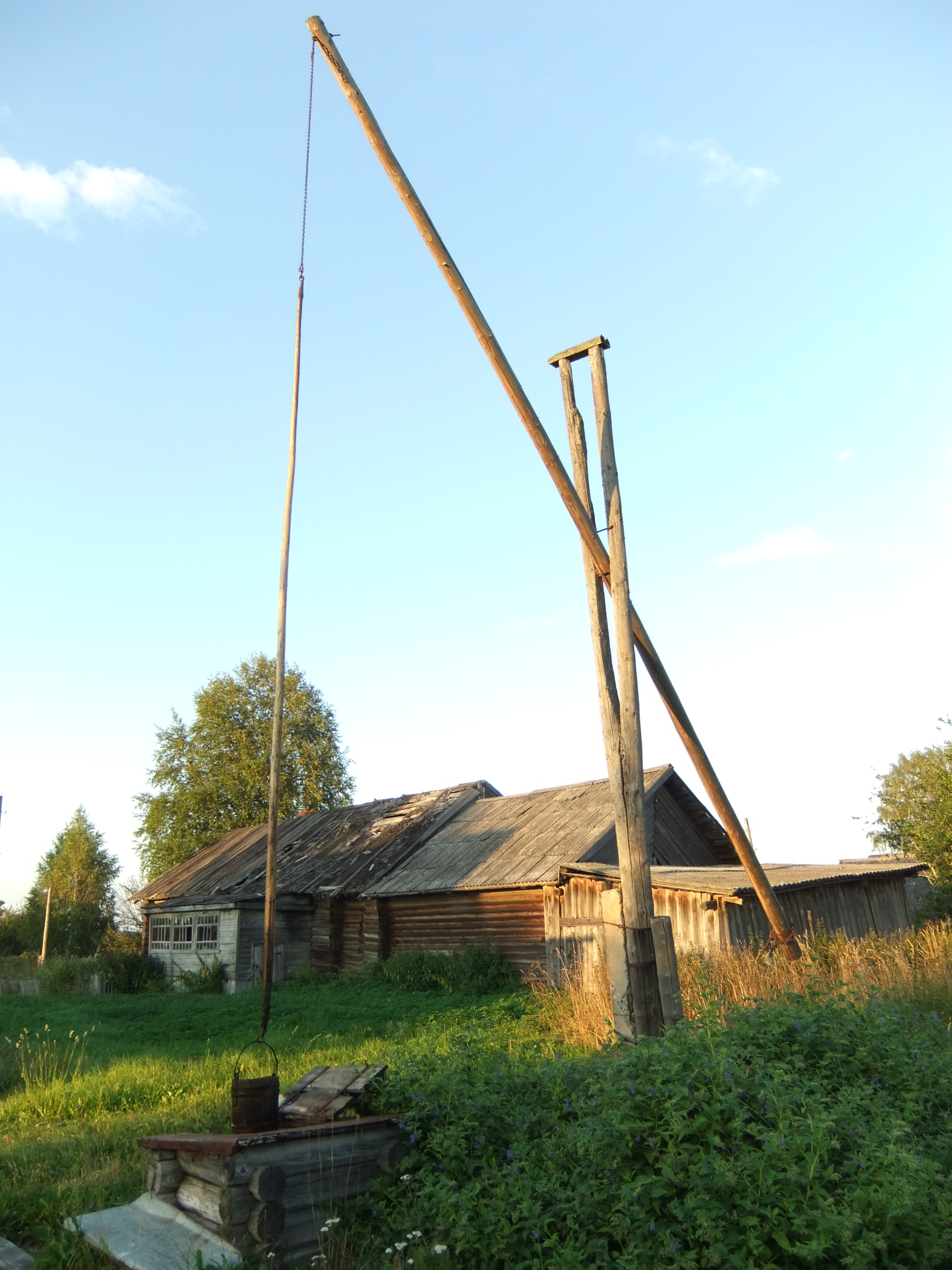 The village well in Menkovo village, Yaroslavl Oblast